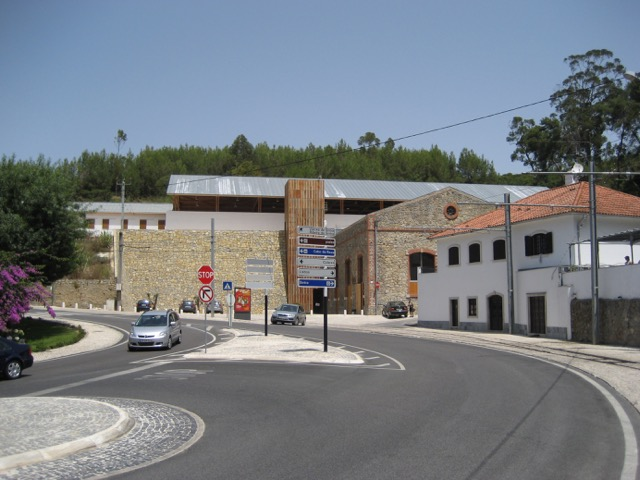 The new Ribeira depot.